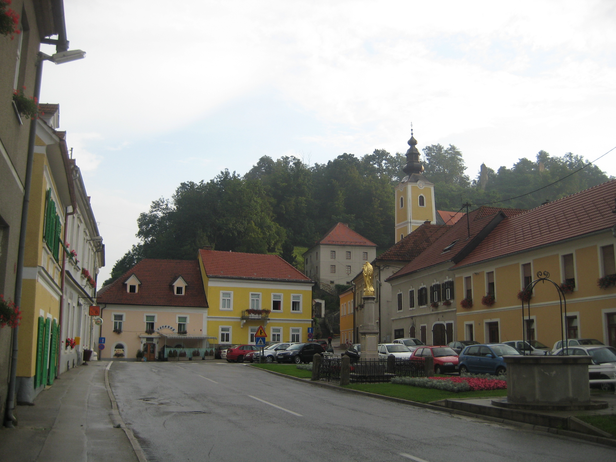 Rogatec, town in Slovenia